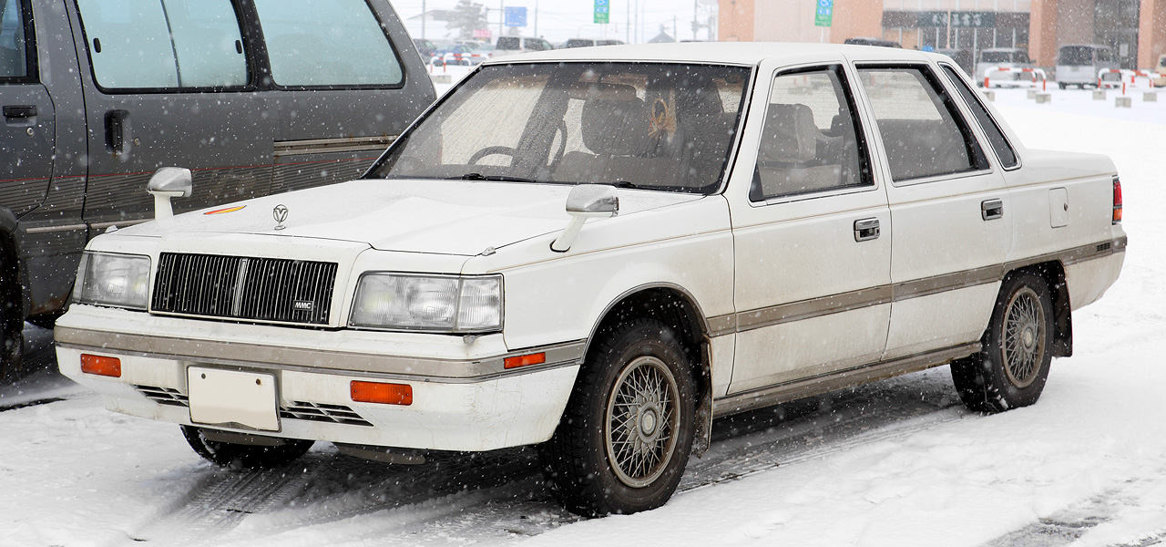 Mitsubishi Debonair V 2.0 Exceed